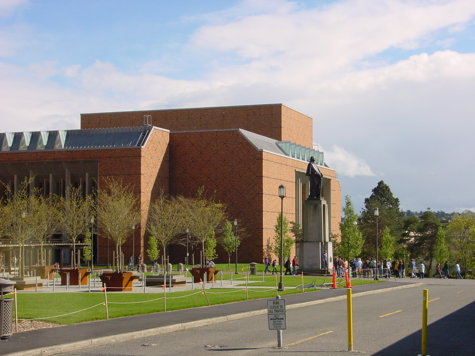 Meany Hall with the statue of George Washington in the foreground, University of Washington, Seattle, Washington